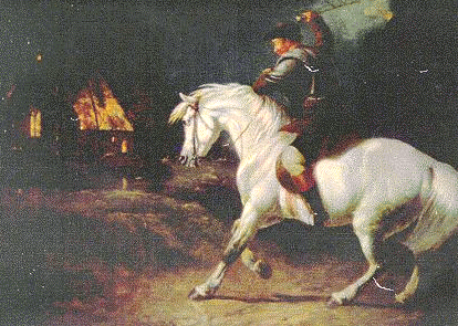 Author: Abraham Cooper (1787-1868) Title: Tam O'Shanter Illustration of Robert Burns' poem.